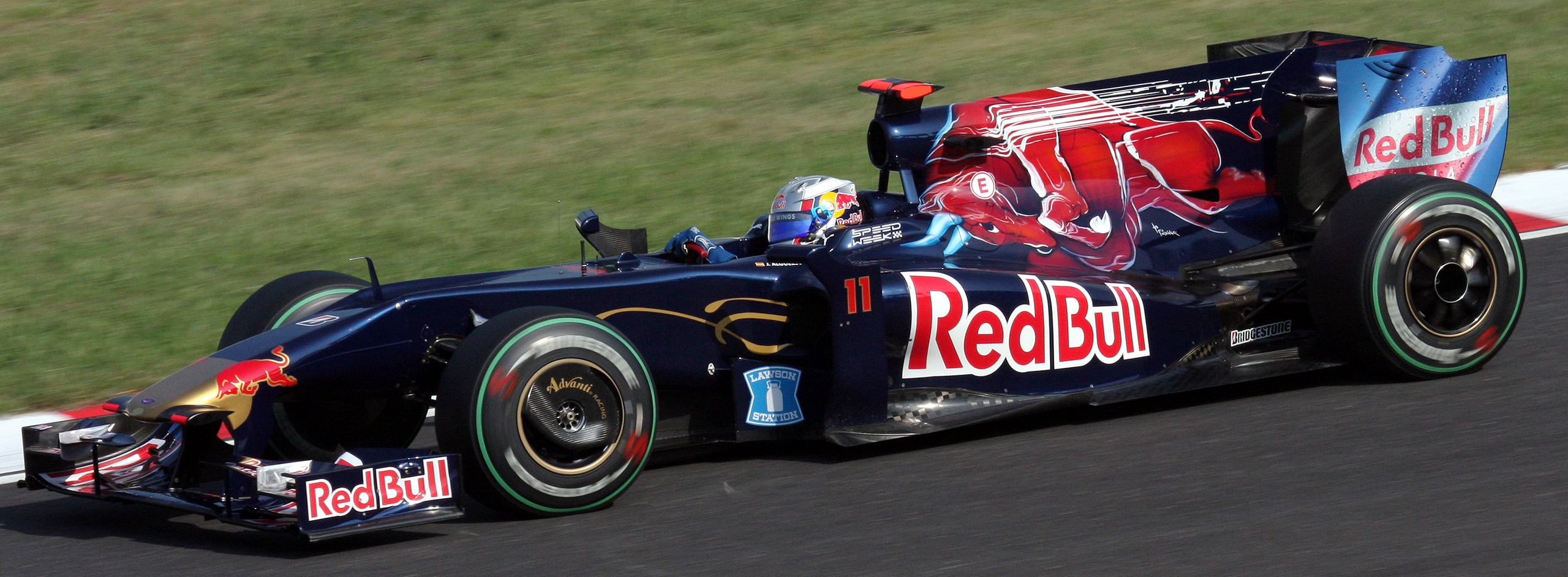 Formula One 2009 Rd.15 Japanese GP: Jaime Alguersuari (Toro Rosso) running in Saturday 1st Qualify session.